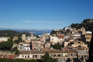 View of Begur (picture taken in December 2004)